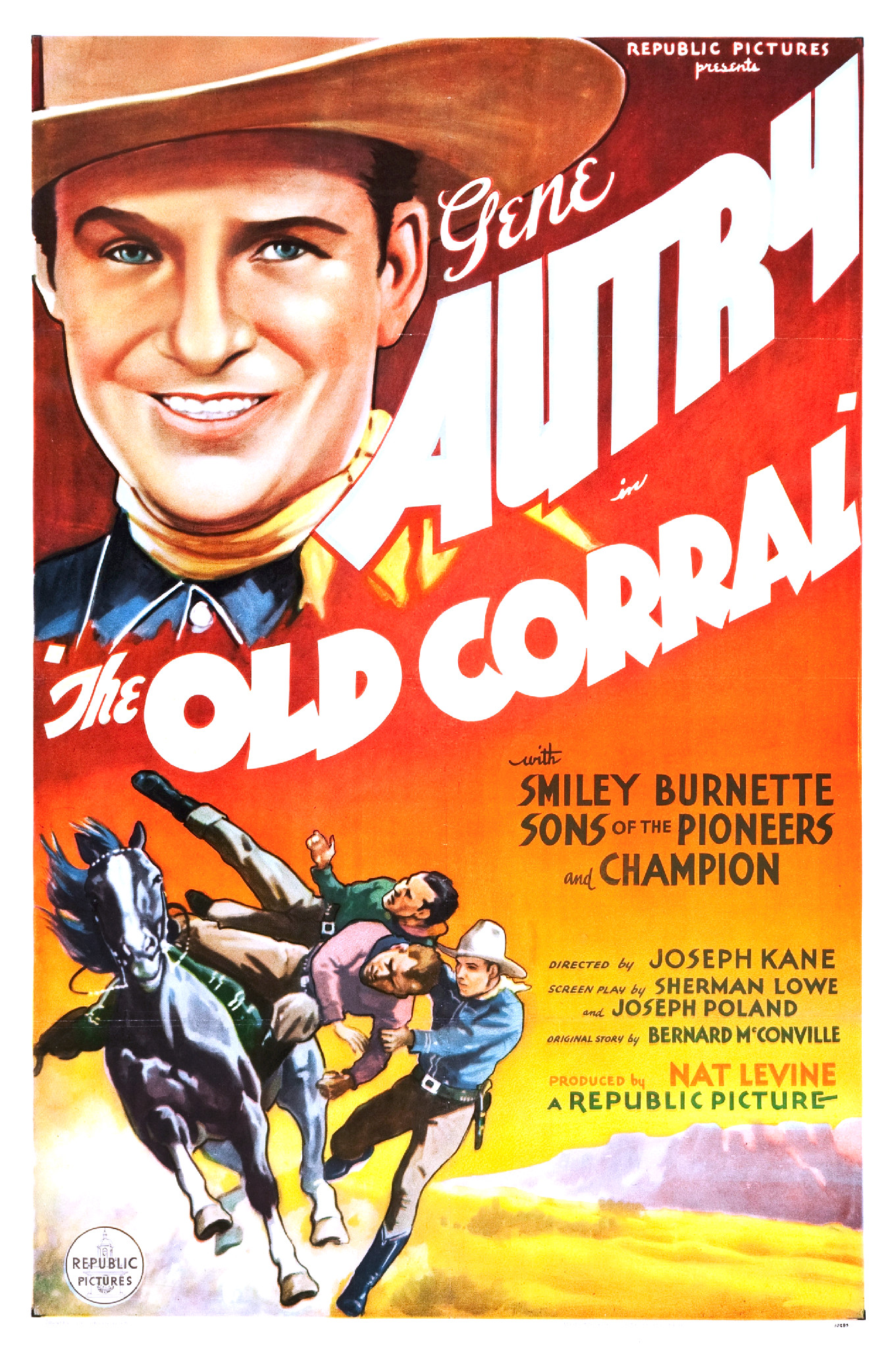 Poster for the 1936 film The Old Corral. The item has no copyright marks on it as can be seen at links and original upload. At bottom left is Country of origin USA. At bottom center is Morgan Litho Corp. Cleveland, O.-they printed the poster. At bottom right is 10284.